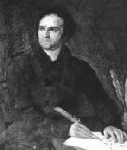 Portrait of Lorenzo Fazzini